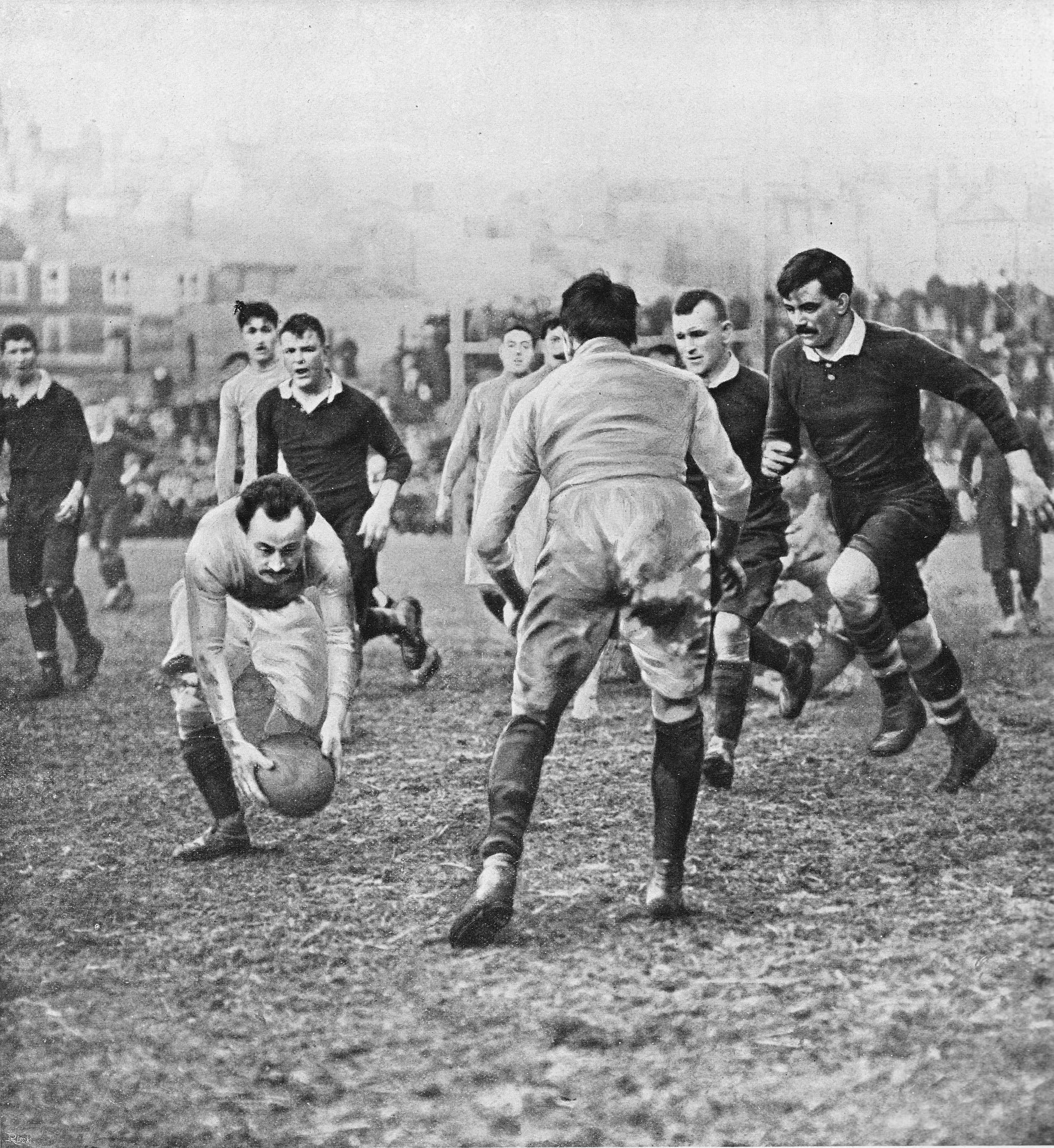 The first Wales-France national rugby match ever, in Cardiff.